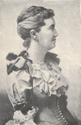 L. T. Meade - Elizabeth Thomasina Meade Smith - (1854–1914), prolific writer of girls' stories